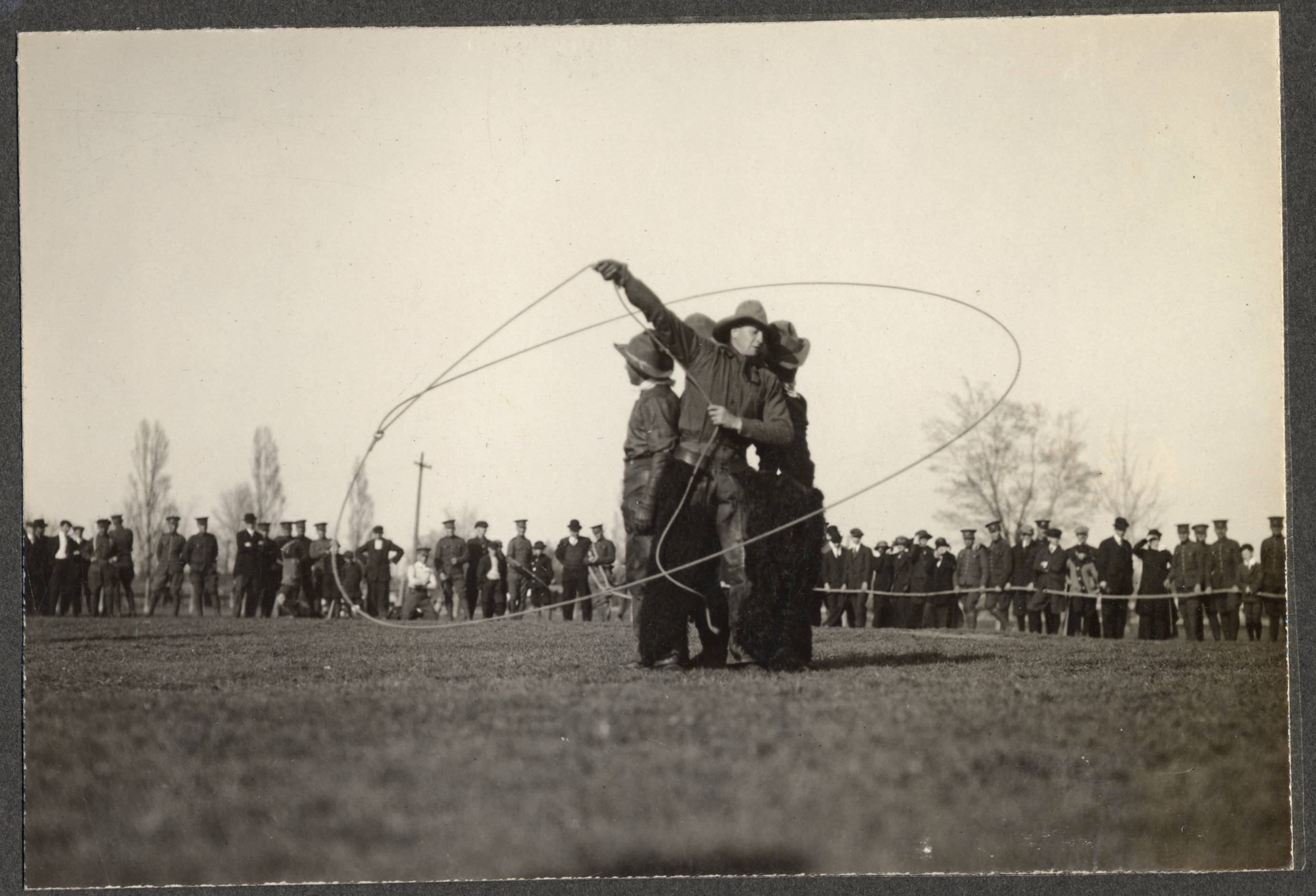 Item is a photograph taken by J. A. Millar from an album depicting scenes of the Canadian Expeditionary Force at Valcartier Camp, at Quebec, and at Gaspe Harbour immediately prior to sailing to Britain in 1914. Millar was a staff photographer of the Montreal Daily Star and produced the album in 1915.